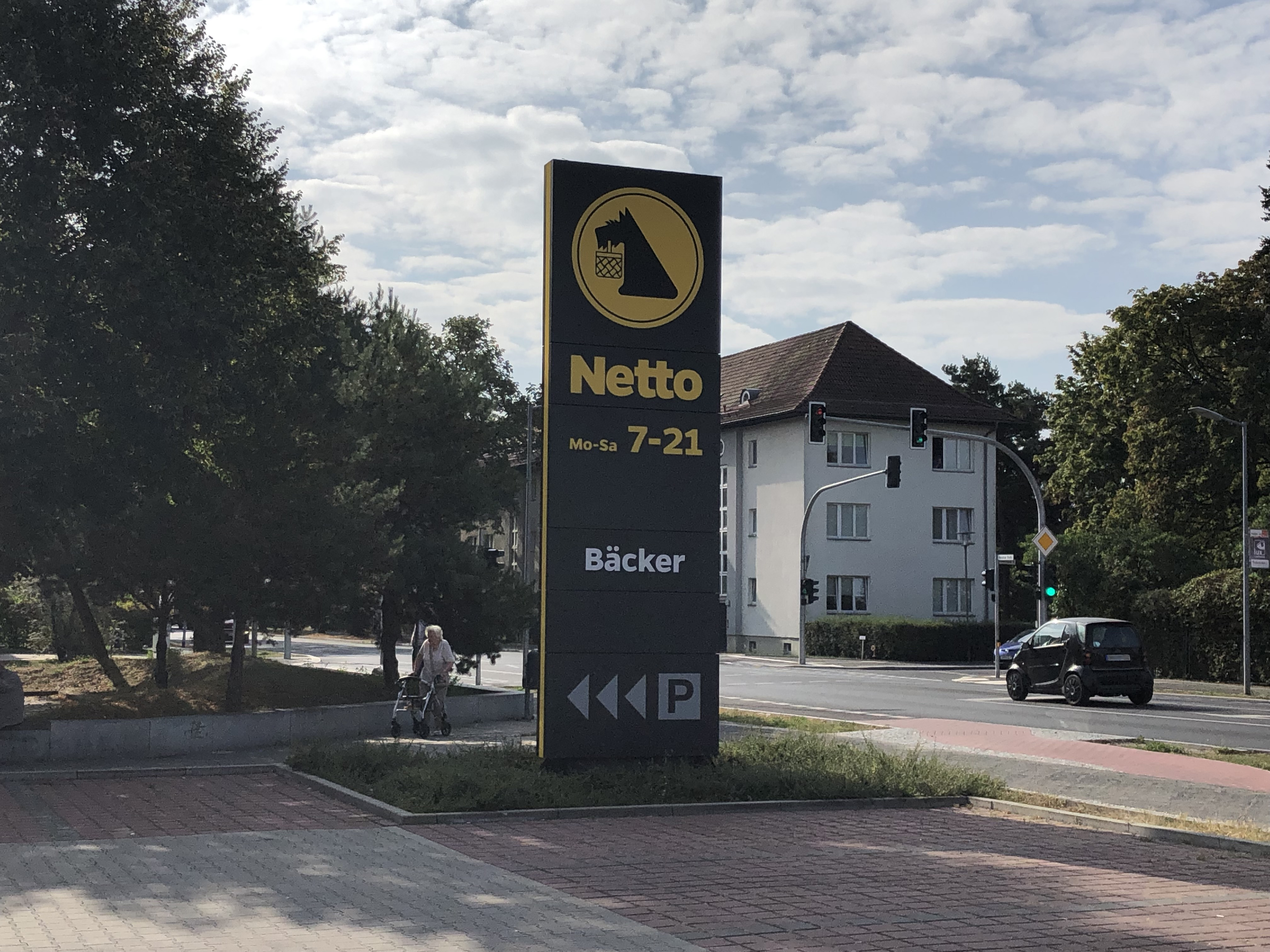 Image of the Netto supermarket in Hennigsdorf